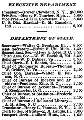 Government listings for the Executive and State Departments: Notable is future judge and commissioner Kenesaw Mountain Landis.